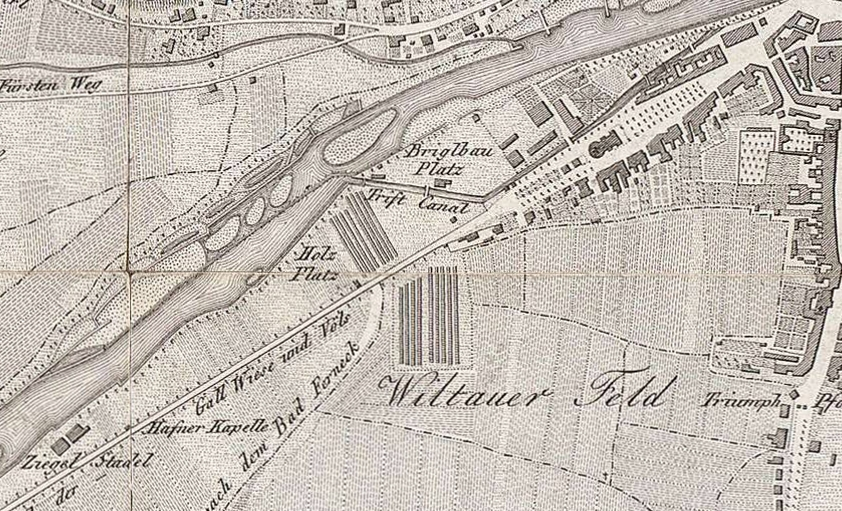 Map of Imperial and Royal Provincial Capital Innsbruck and surroundings: detail map